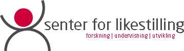 Senter for likestilling's logo